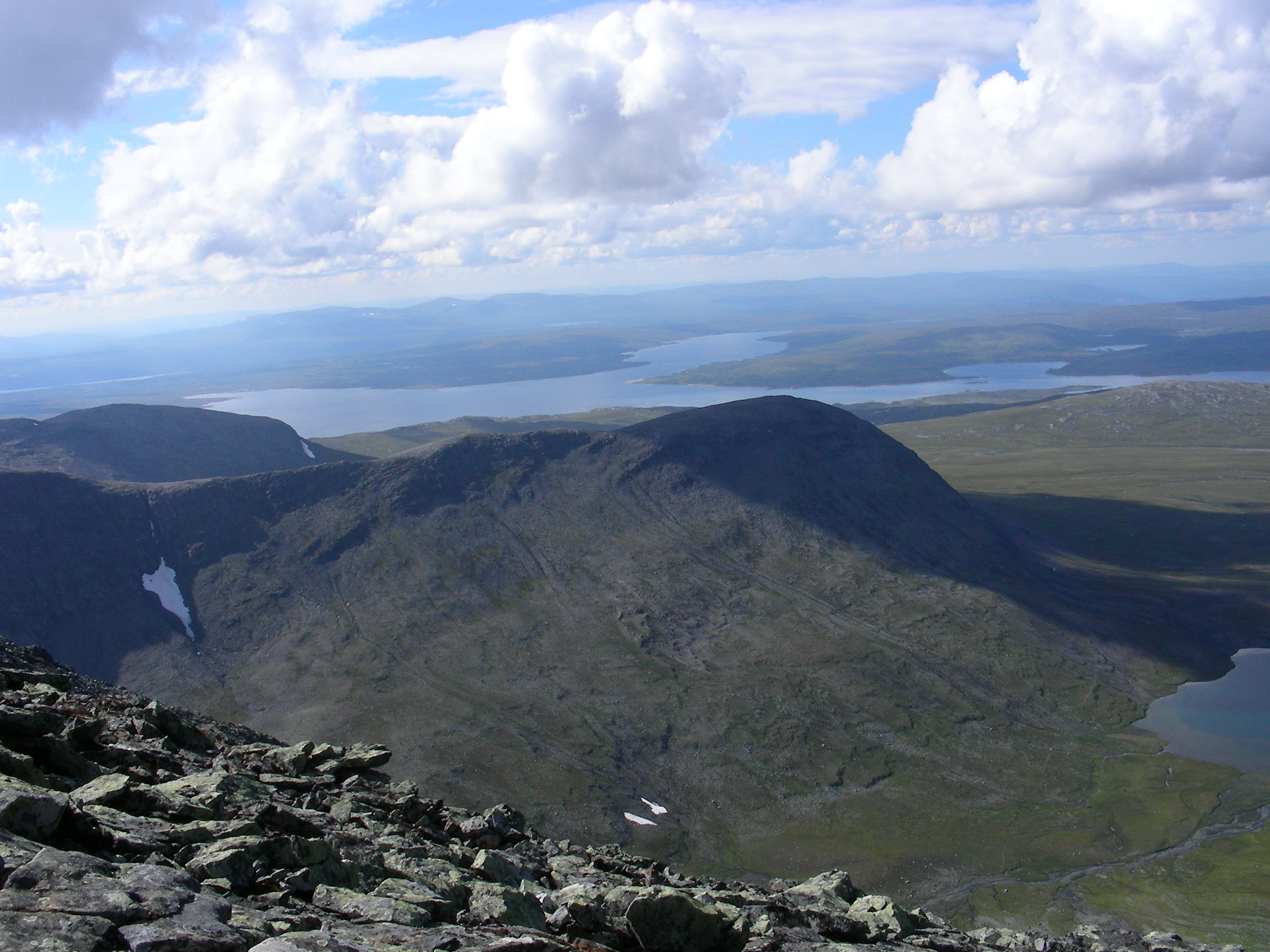 View from a mountain over a landscape in the sylans